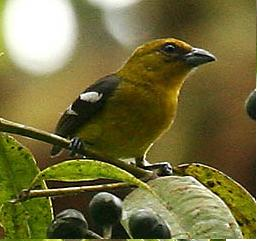 White-winged Tanager (Piranga leucoptera). A female at Milpe Bird Sanctuary, NW Ecuador.